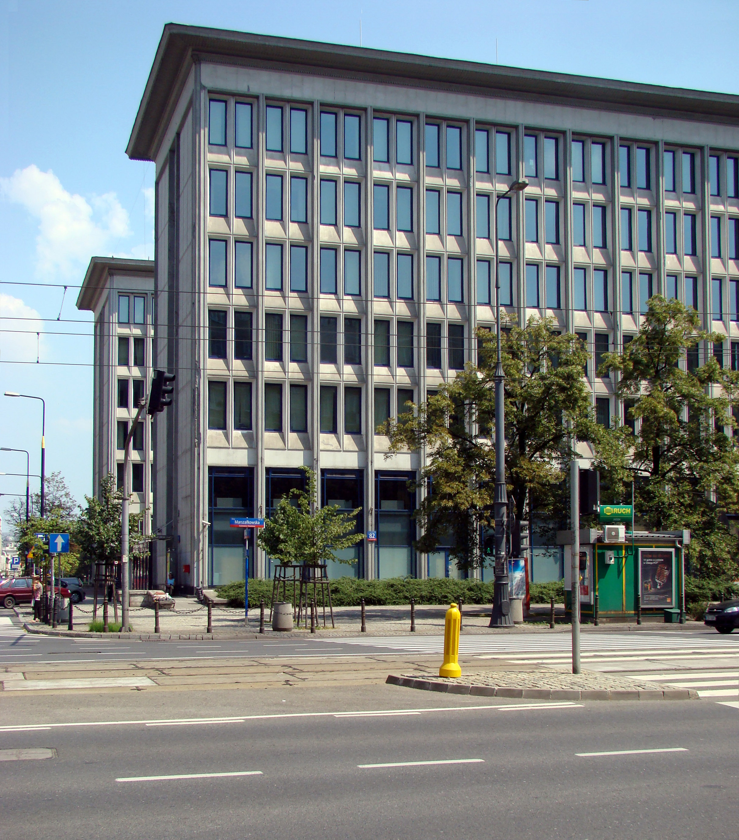 Office bldg., Warsaw